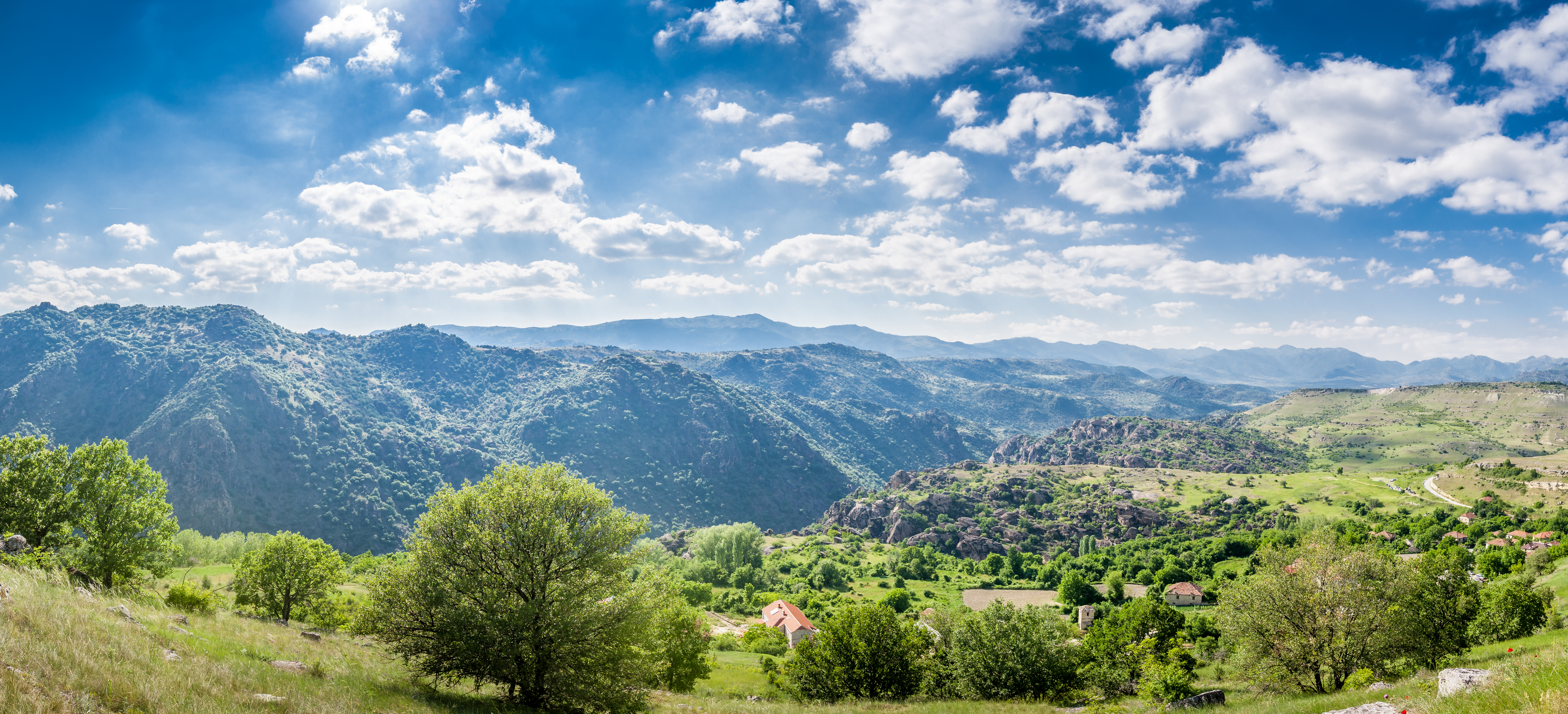 Panoramic photography of the Mariovo taken above the village Manastir